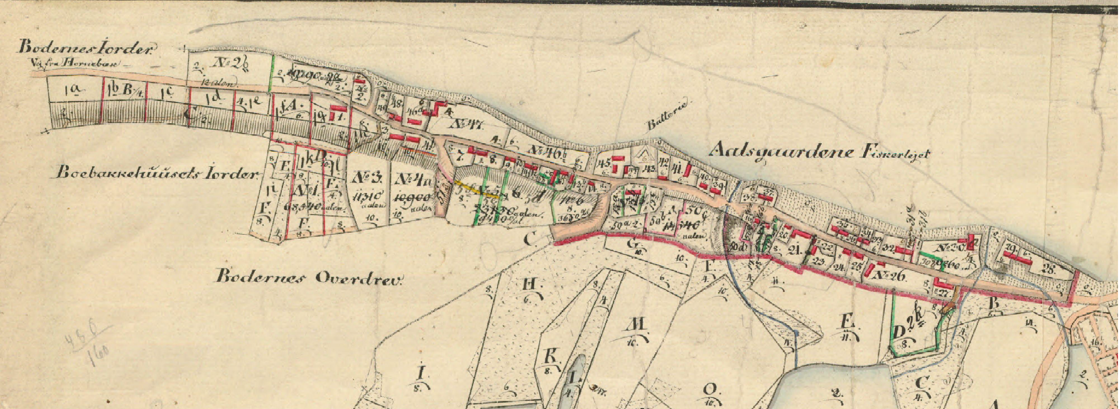 Ålsgårde og Hellebæk på matrikelkort Hellebæk 1860-1878a